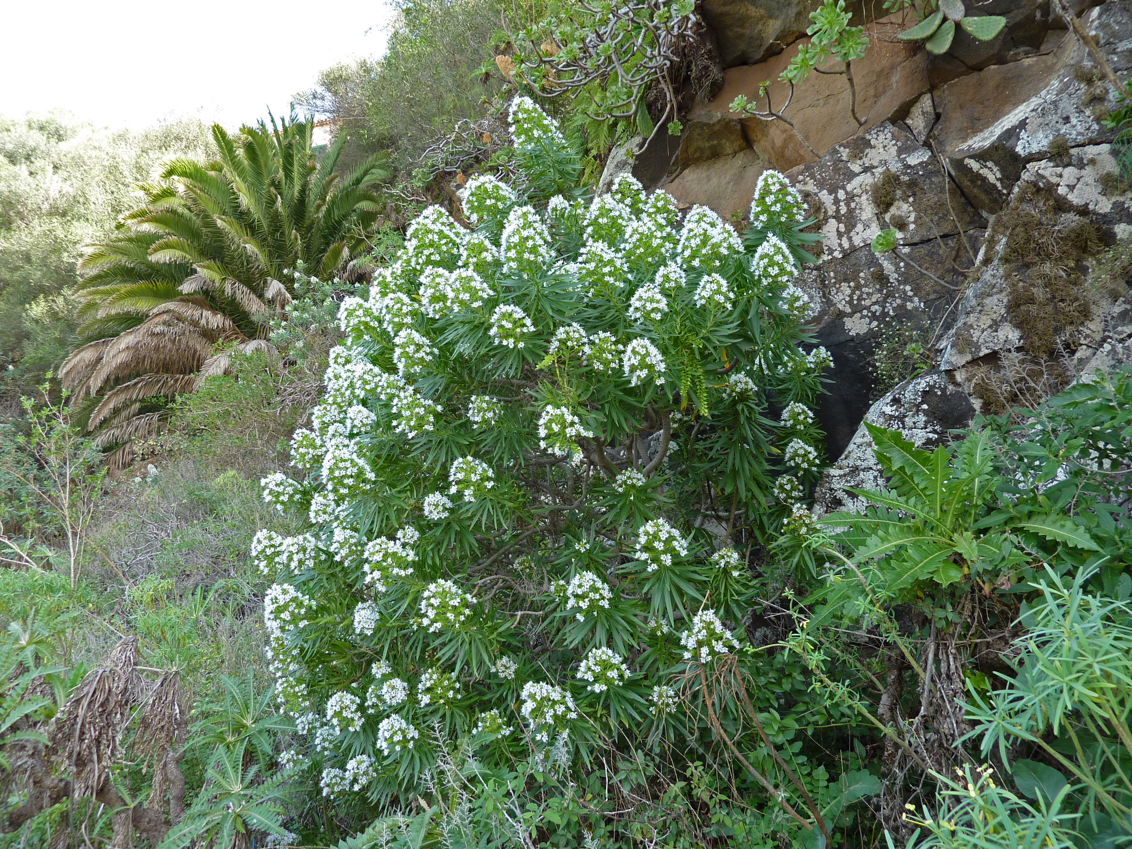 Echium decaisnei in the Jardín Botánico Canario Viera y Clavijo.